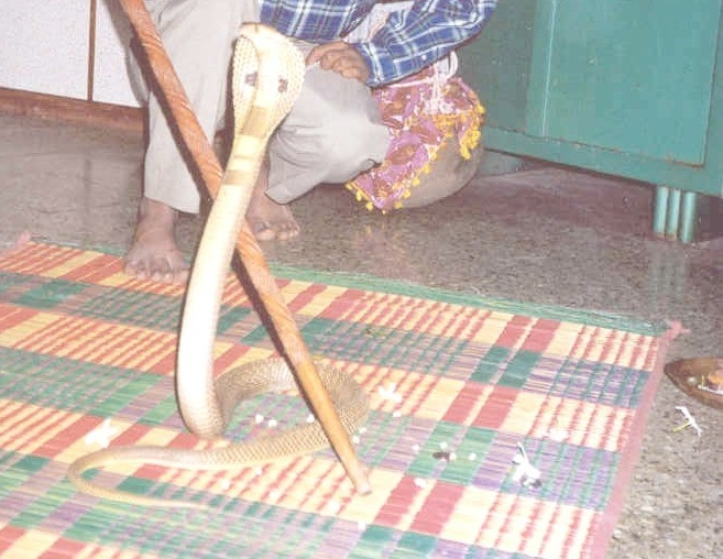 Naag